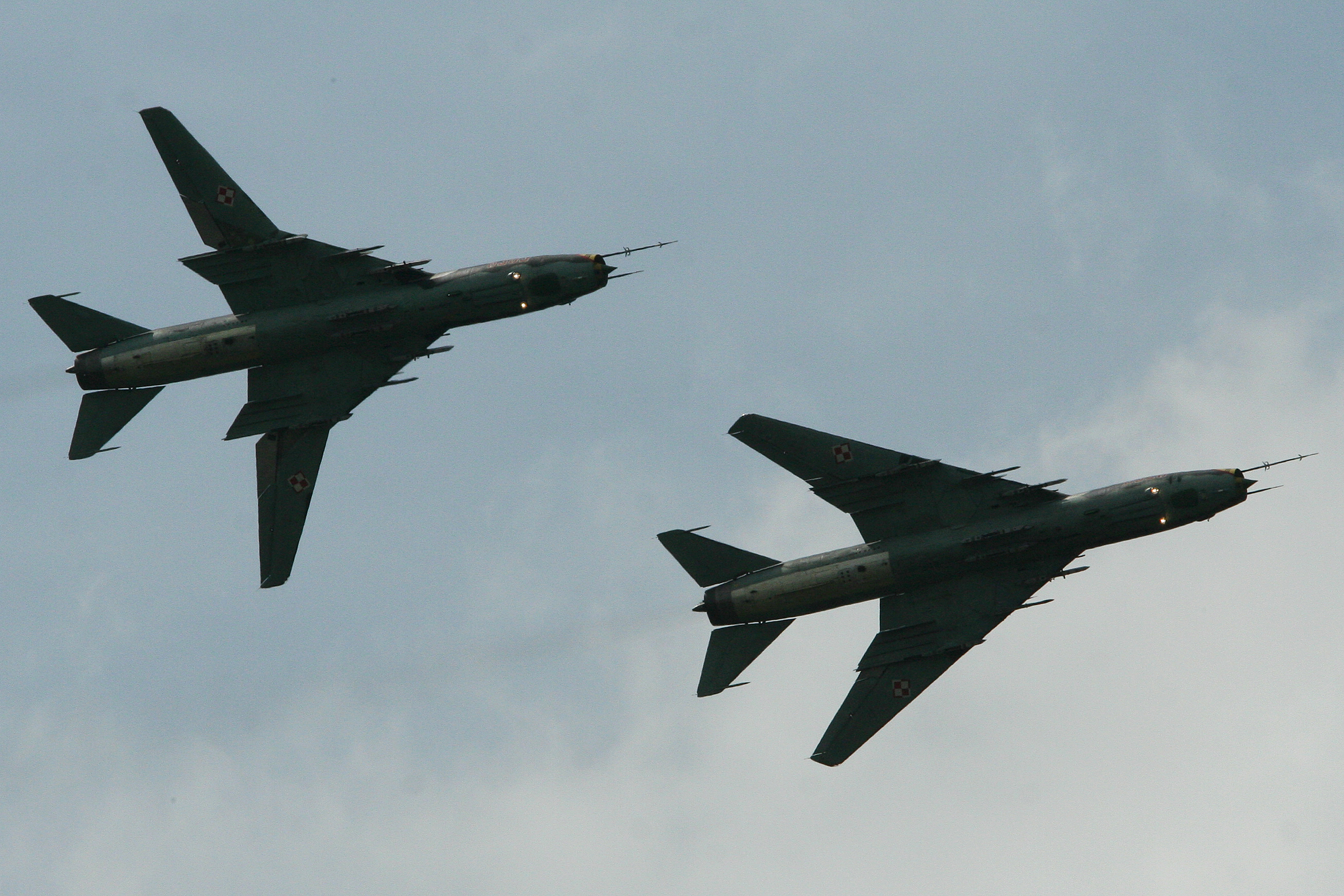 Demonstrating the two extremes of available wing geometry on an Su-22M, this pair were a rare and welcome site at the '100th Anniversary of Dutch Military Aviation' airshow. 2013 is the last year of Polish Su-22 operations, so it was quite a result to catch them in action! Operated by 21.BLT / 40.ELT, Polish Air Force, the lead aircraft is '3920' c/n 37920, while No2 is '8309' c/n 28309. Volkel Airbase, Netherlands. 14-6-2013